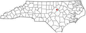 Category:North Carolina Dot Maps